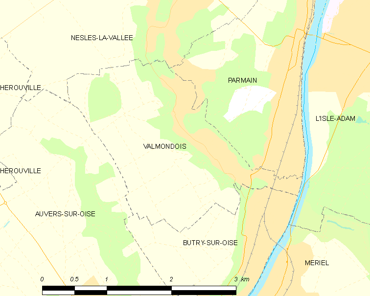 Map of French municipality Valmondois